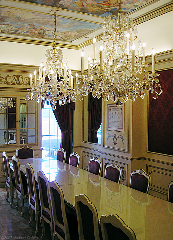 The Austrian Classroom, one of the Nationality Rooms in the Cathedral of Learning at the University of Pittsburgh. photo by Michael G White